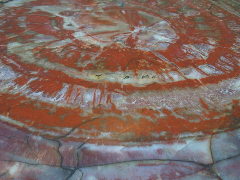 Petrified wood from Arizona, USA at the Natural History Museum in London, England.